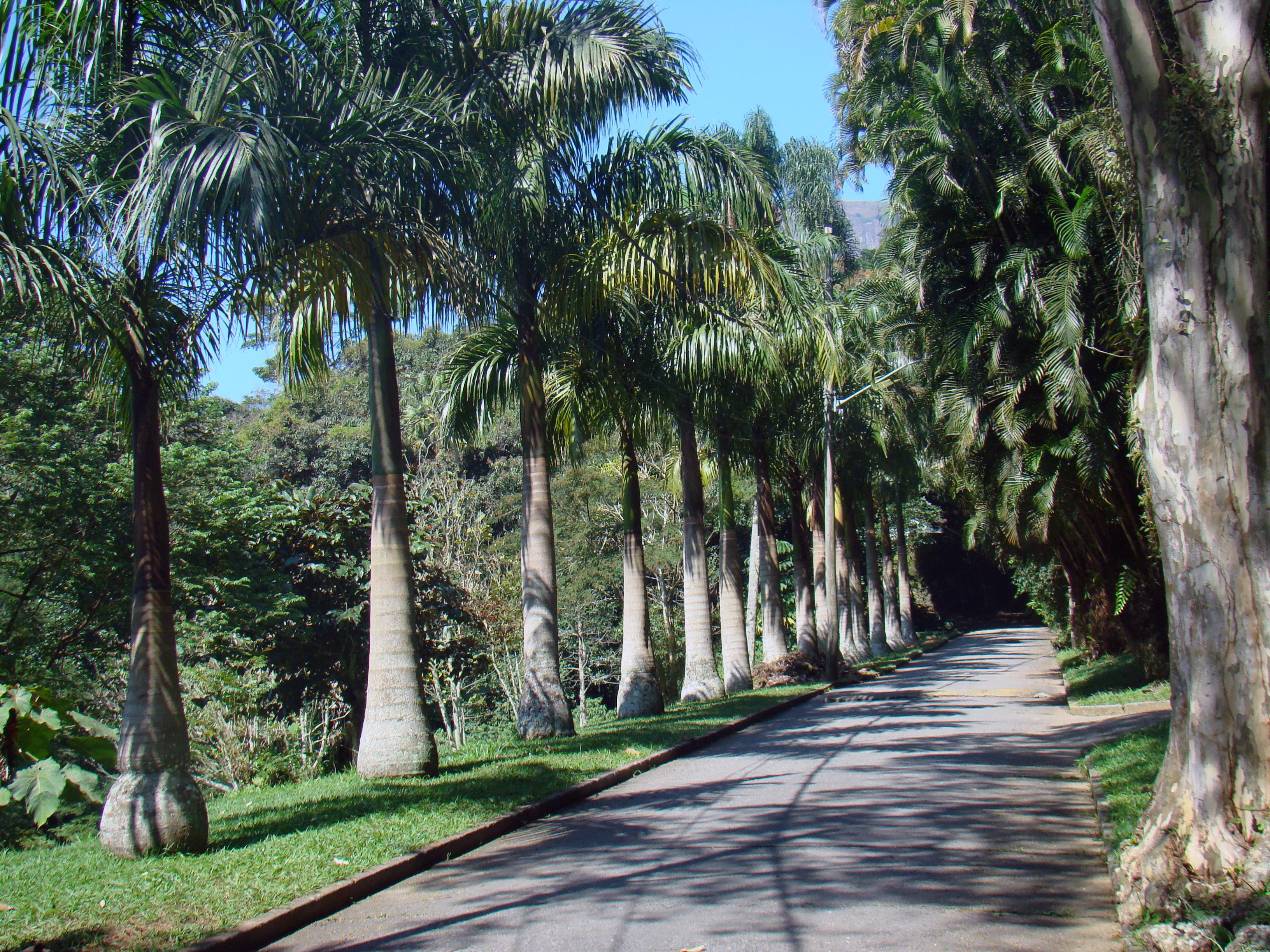 Parque da Gávea is a city park located in the city of Rio de Janeiro.